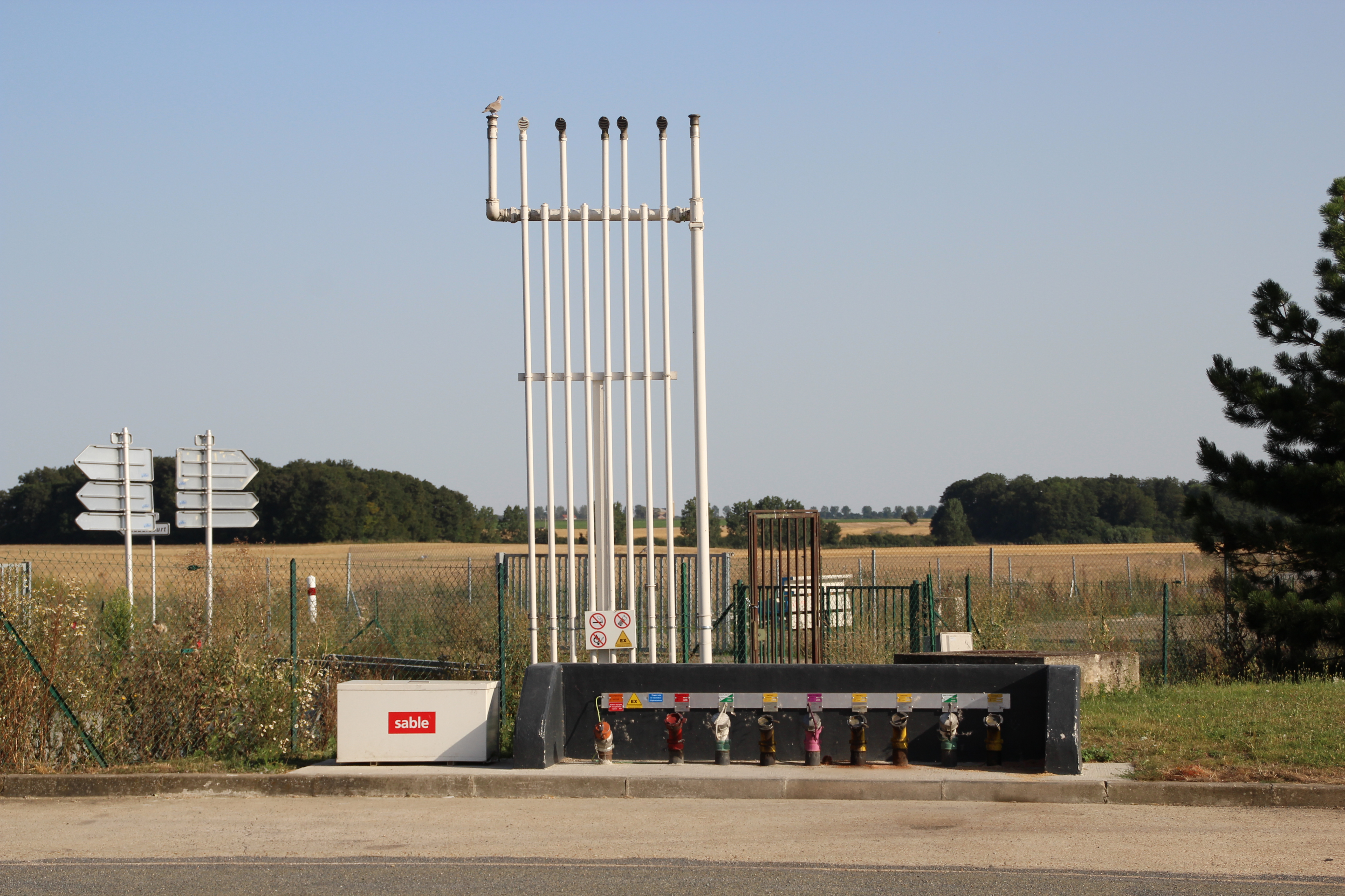 Petrol station exhaust pipes at the Relais de Prunay , a Total petrol station on the road nationale 10 at Hameau de l'Abbé in Prunay-en-Yvelines, France.